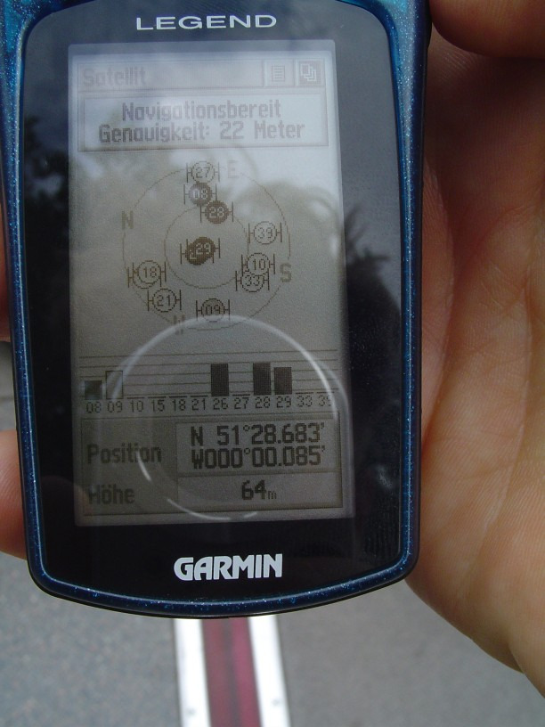 GPS-Position of the Royal Observatory: This picture proves that the Royal Observatory is nearly 100m from the modern WGS-84 null-meridian away. In the Background you see the line.